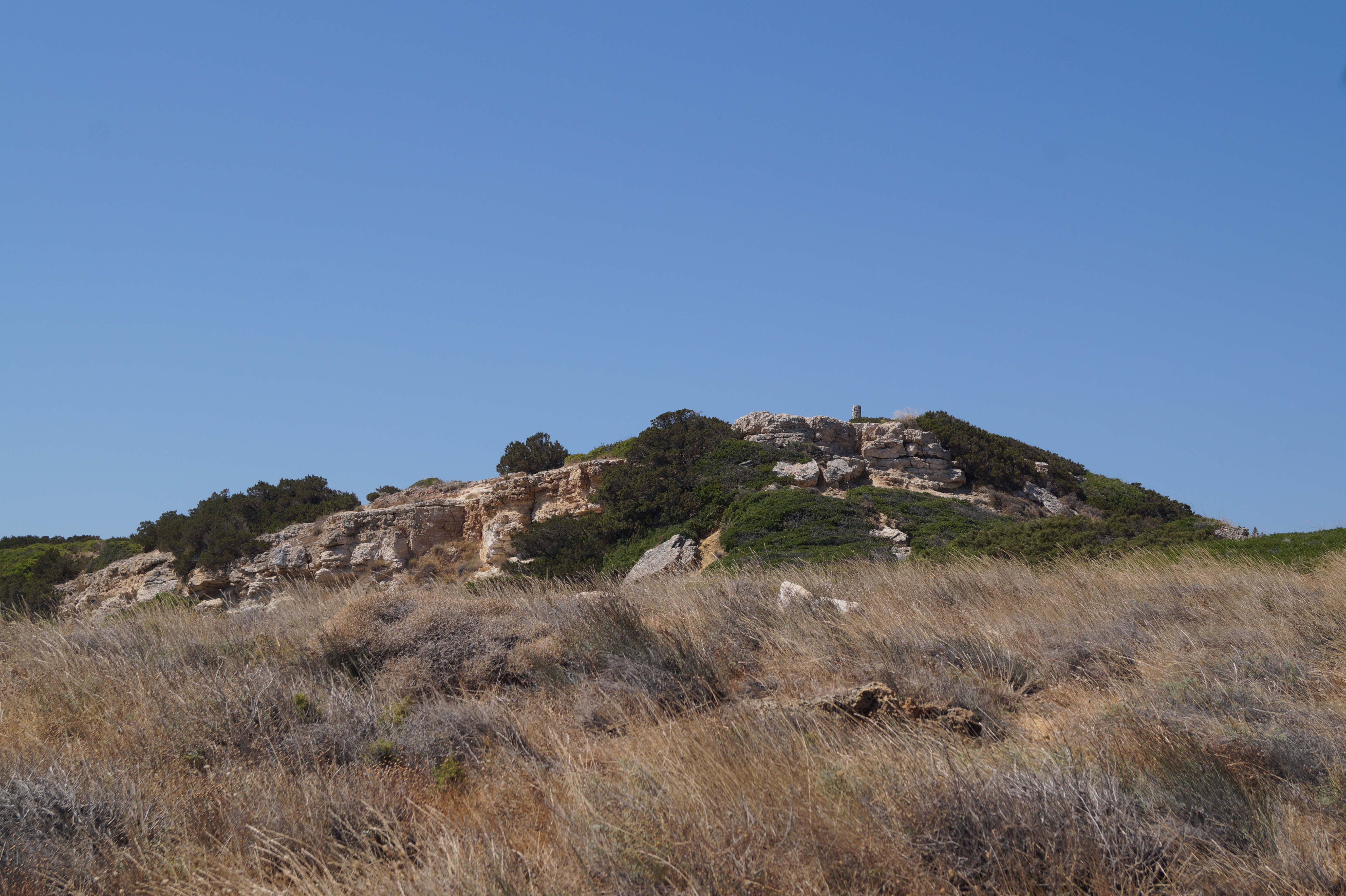 Rafina, Attica, Greece: View of the east side of the archaeological sites of Askitario.